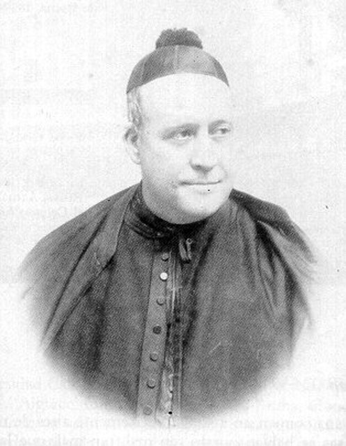 Portrait of Manuel Domingo i Sol (Tortosa, Catalonia, 1836 - 1909), priest and blessed, founder of the Fraternitat dels Sacerdots Operaris Diocesans del Sagrat Cor de Jesús.